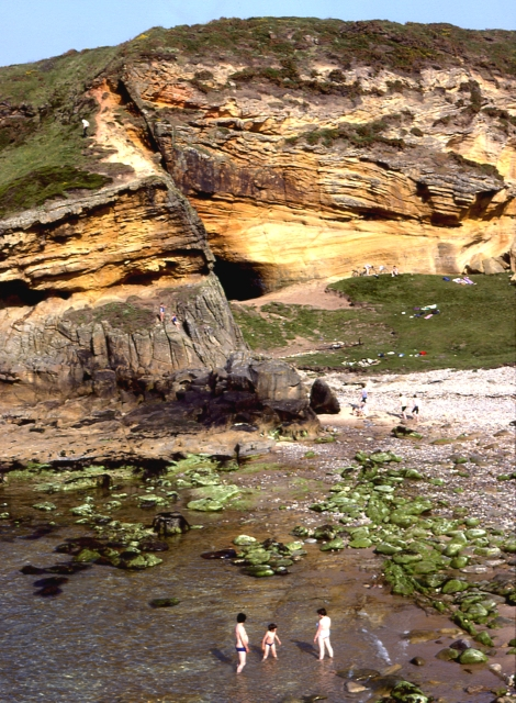 Cliffs at Clashach Cove. The cove is a popular picnic spot. The cliffs are of Permo-Triassic desert sandstones, with an obvious fault which has allowed the sea to erode caves below. Slickensides can be found on close inspection of the cave walls.